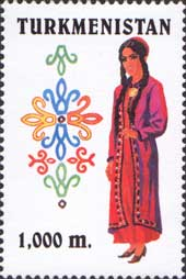 Traditional Costumes.